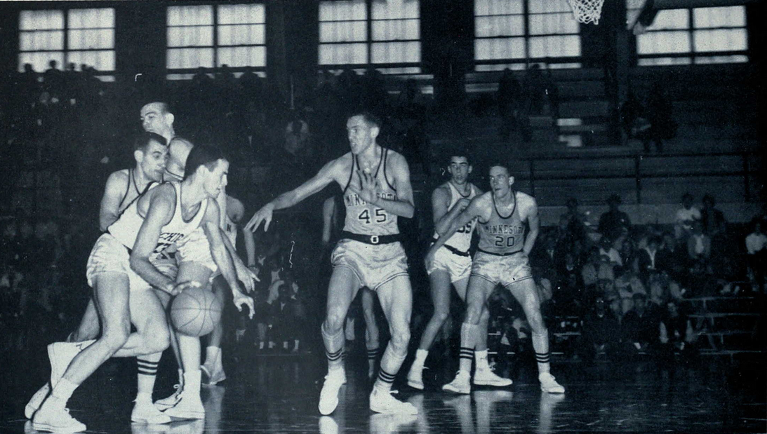 Photograph of John Tidwell in 1960 game against Minnesota in which he set the Michigan single game scoring record with 43 points